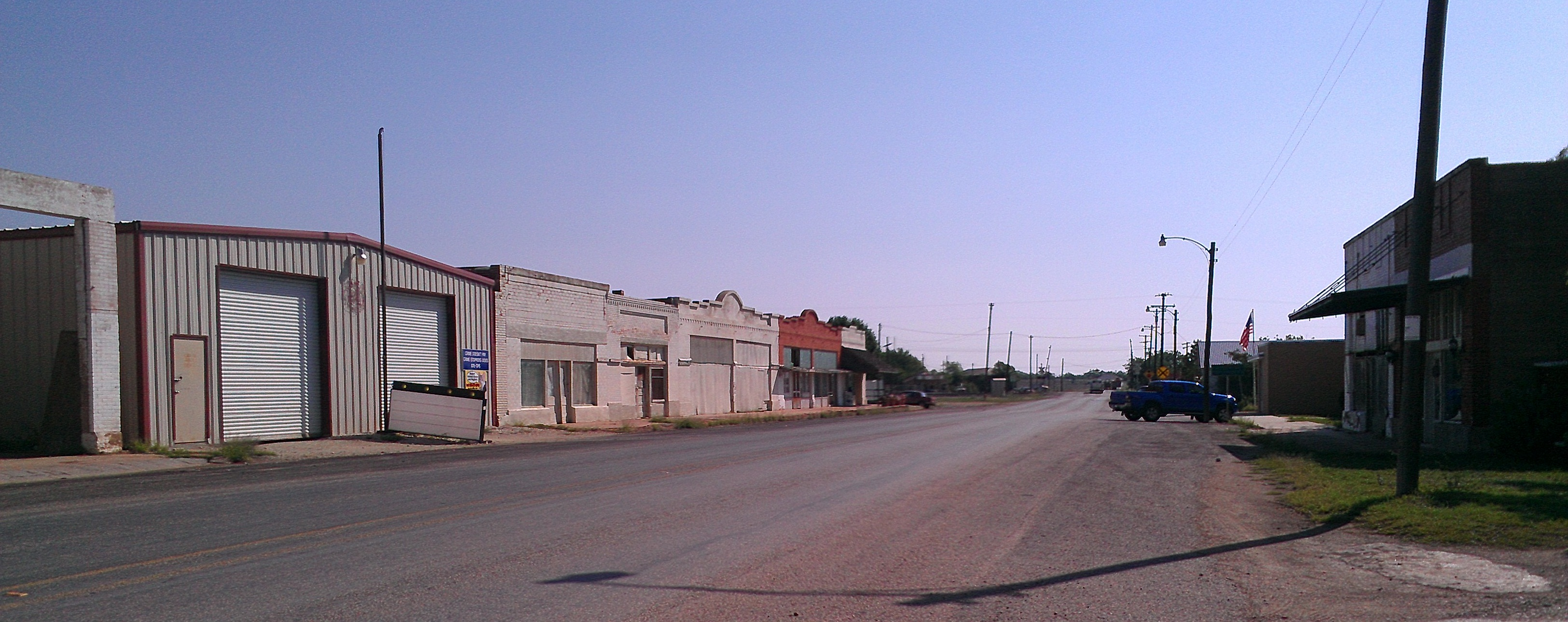 Downtown Lawn, Texas.